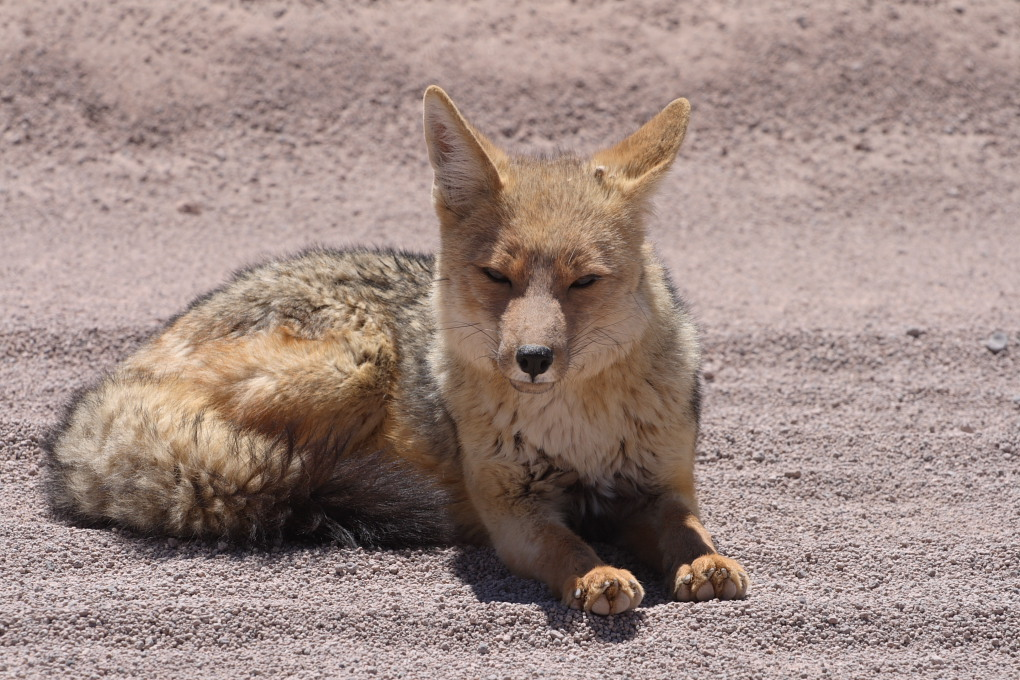 Lycalopex culpaeus, A Culpeo or Andean Fox.